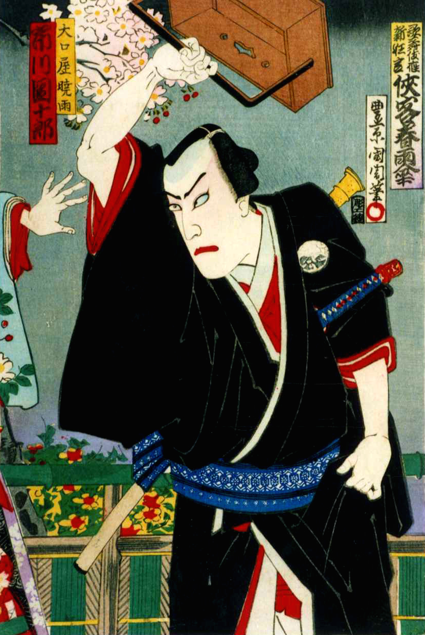 Danjūrō Ichikawa IX ( 1838–1903) as Ōguchi-ya Gyō-u, depicted in Kabuki-za Shin Kyōgen: Kyōkaku Harusame Gasa, by Toyochika Toyohara